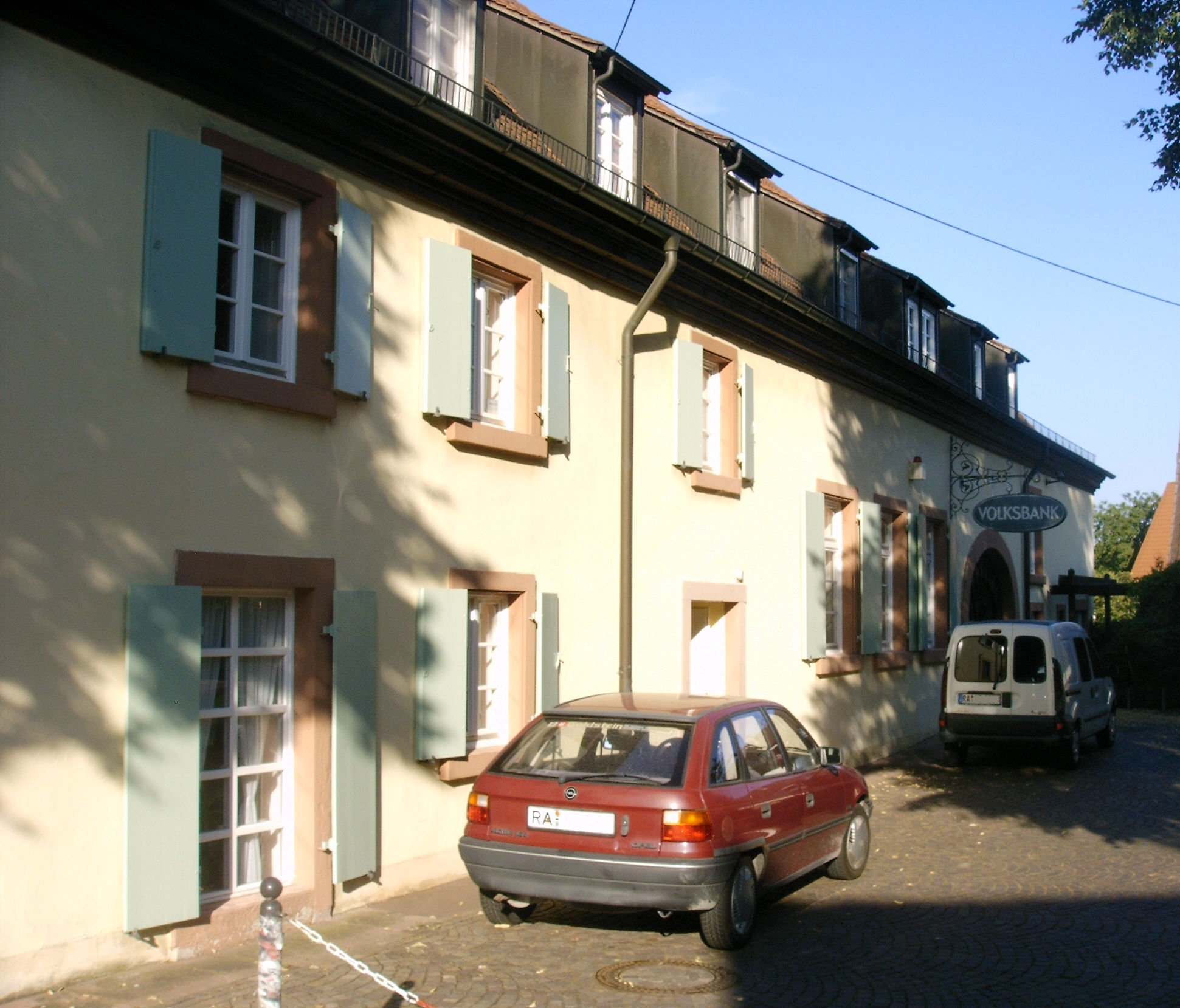 Former town hall of Ottersdorf, part of Rastatt, Germany